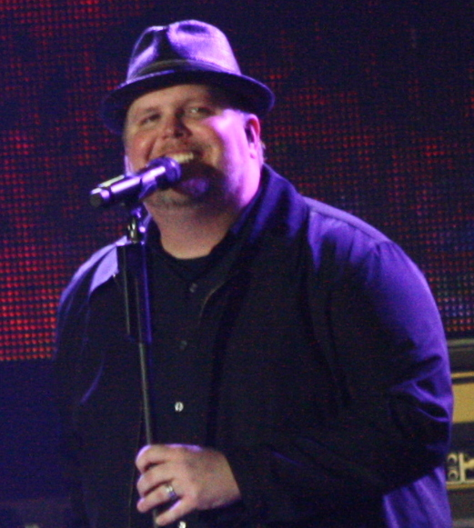 MercyMe lead singer Bart Millard and guitarist Barry Graul at the Rock and Worship Road Show